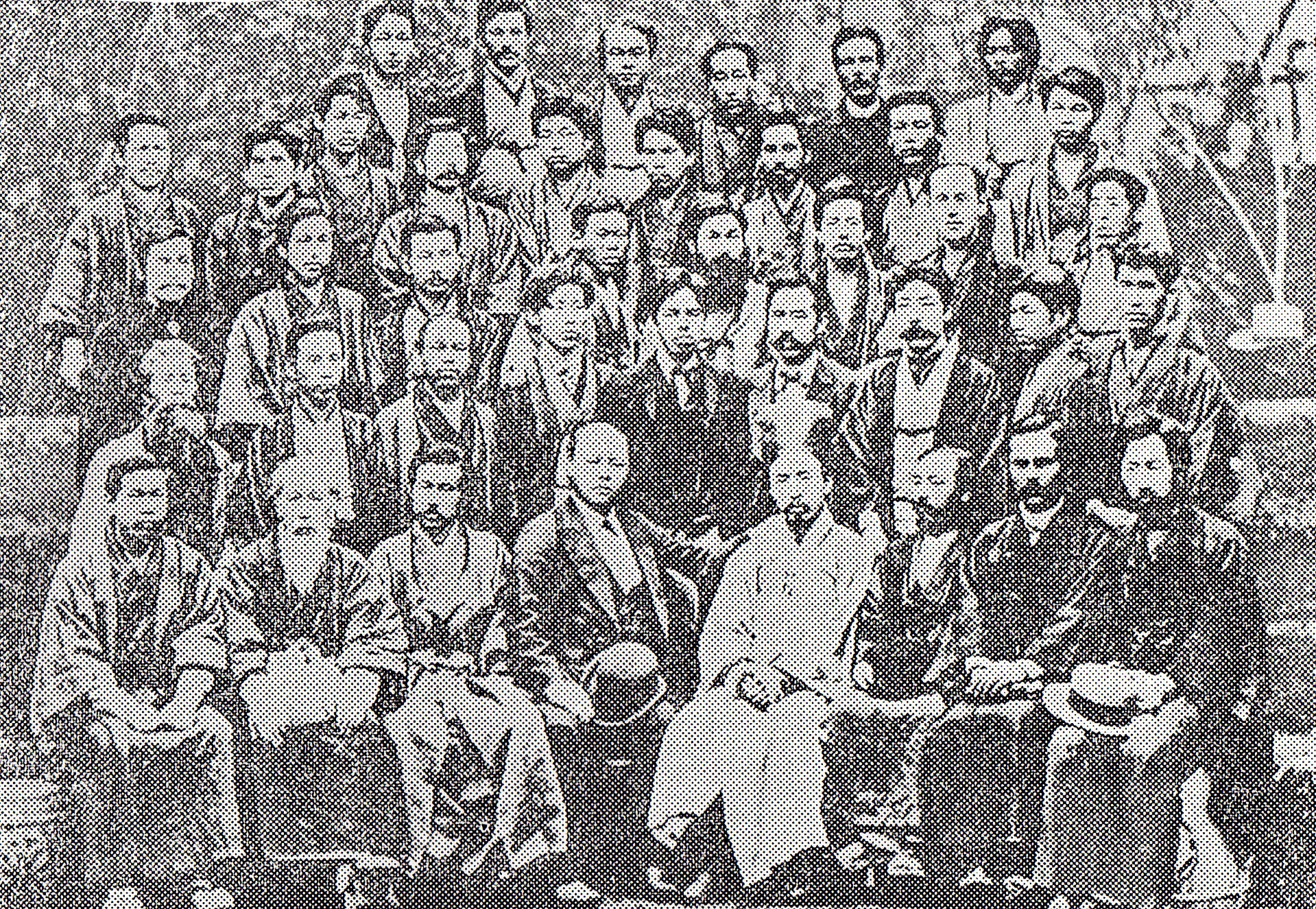 attenders of the 3rd conference of Japanese Christian at Tokyo in 1883,including Joe Neesima, Kanzo Uchimura, Hiromichi Ozaki and Masahisa Uemura